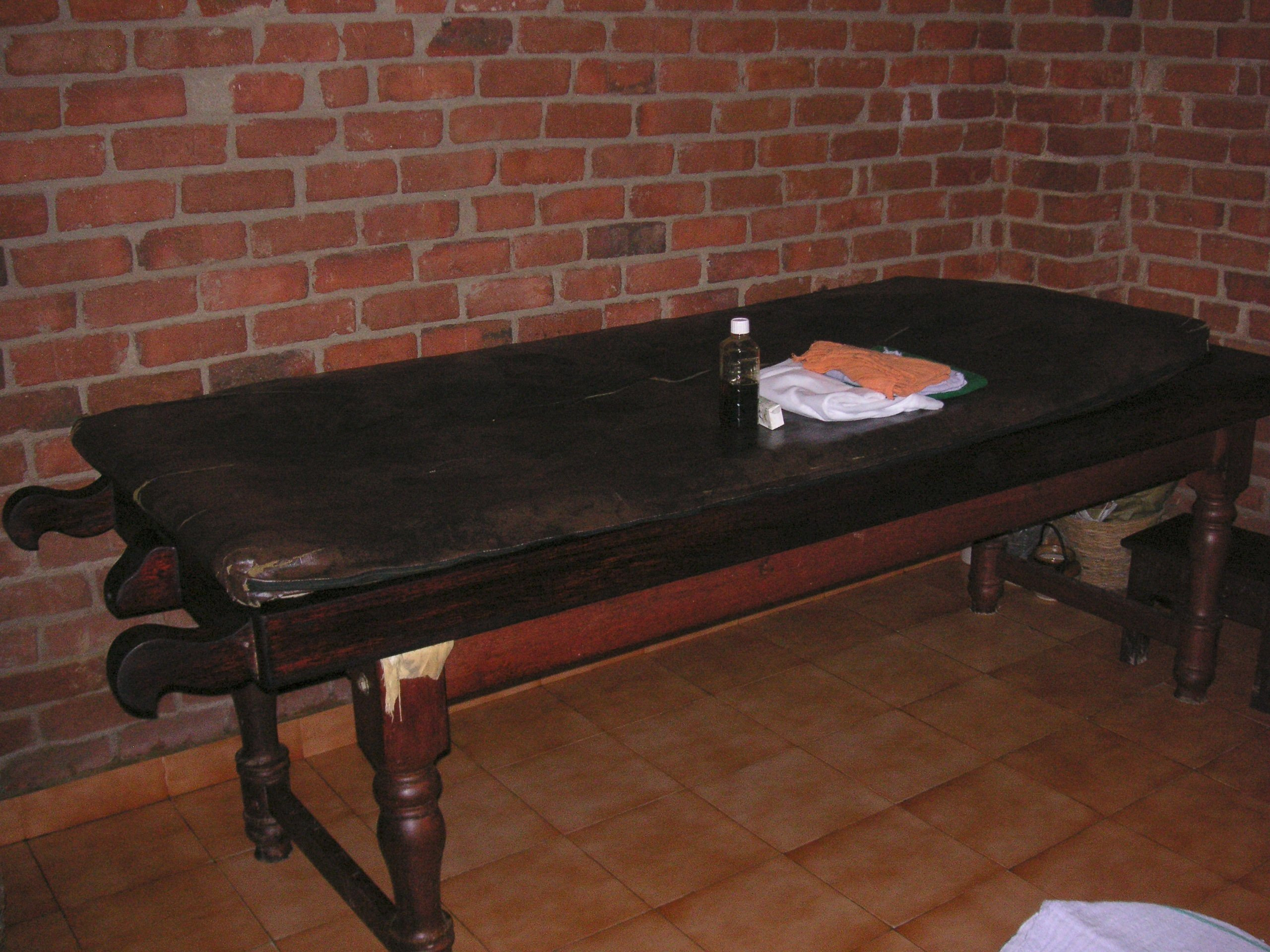 Massage table